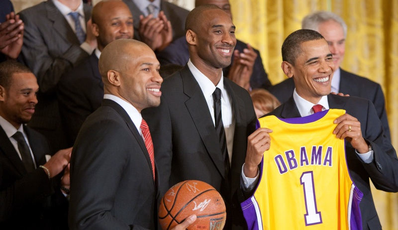 President Barack Obama holds a personalized team jersey presented to him by Los Angeles Lakers guards Kobe Bryant, center, and Derek Fisher, left, during a ceremony in the East Room of the White House honoring the 2009 NBA basketball champions, Jan. 25, 2010.